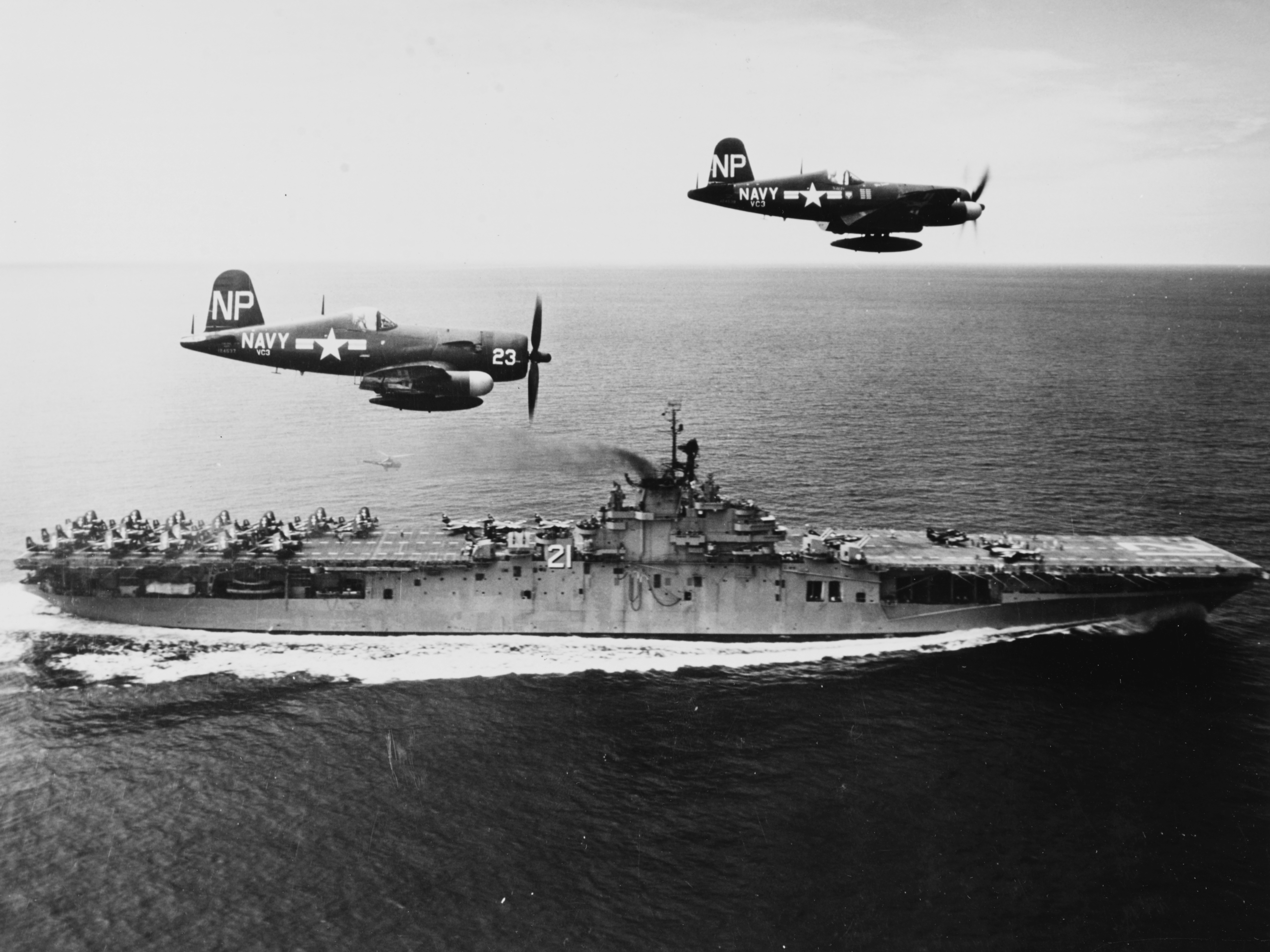 Two U.S. Navy Vought F4U-5N Corsair night fighters of Composite Squadron 3 (VC-3) Det. F "Blue Nemesis" fly past the aircraft carrier USS Boxer (CV-21), during combat operations off Korea on 4 September 1951. The planes are BuNos 124537 (left) and 124539, which were flown by Lt. John D. Ely, USNR, and Lt(JG) J.G. Stranlund, USNR. VC-3 Det. F was assigned to Carrier Air Group 101 (CVG-101) aboard the Boxer for a deployment to Korea from 2 March to 24 October 1951.